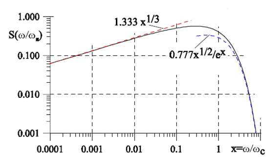 Frequency_distributions_of_radiated_energy.png